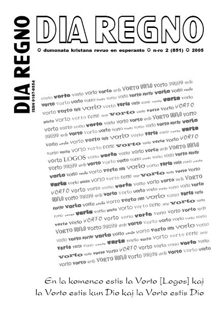 Fotis: Bengt Olof Åradsson